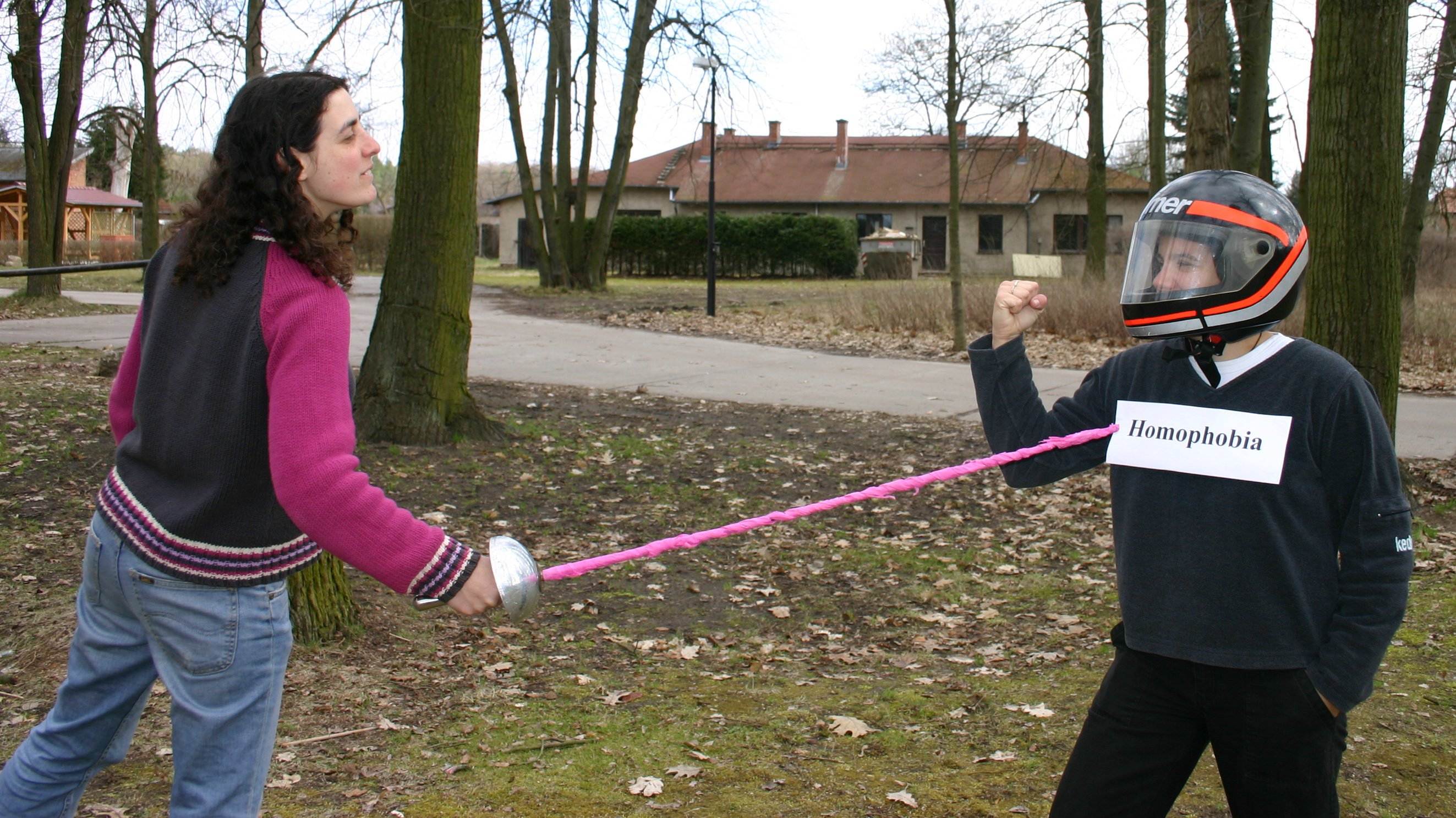 Students demonstrating fighting homophobia